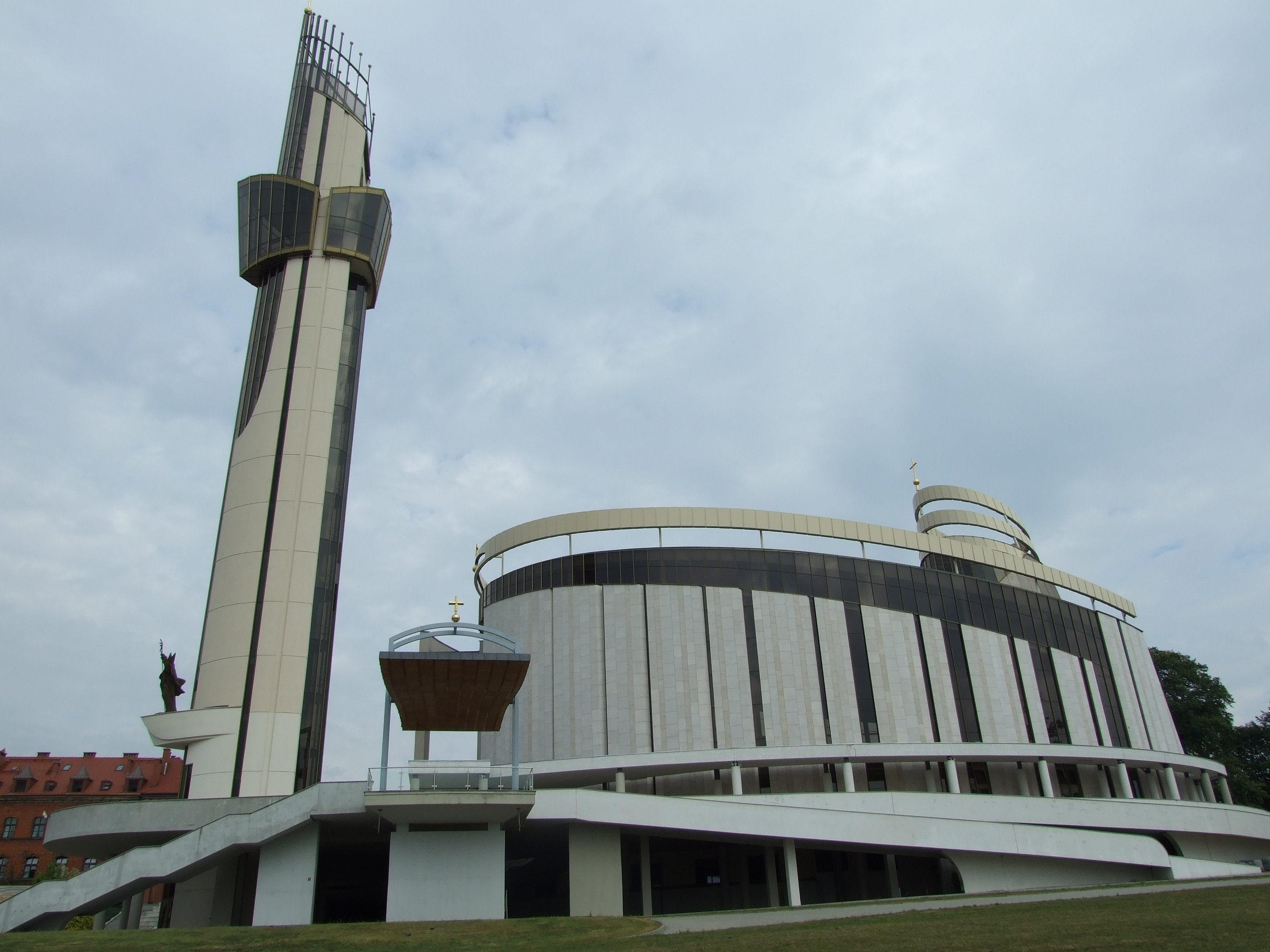 The Sanctuary of the Divine Mercy in Kraków-Łagiewniki (Poland)